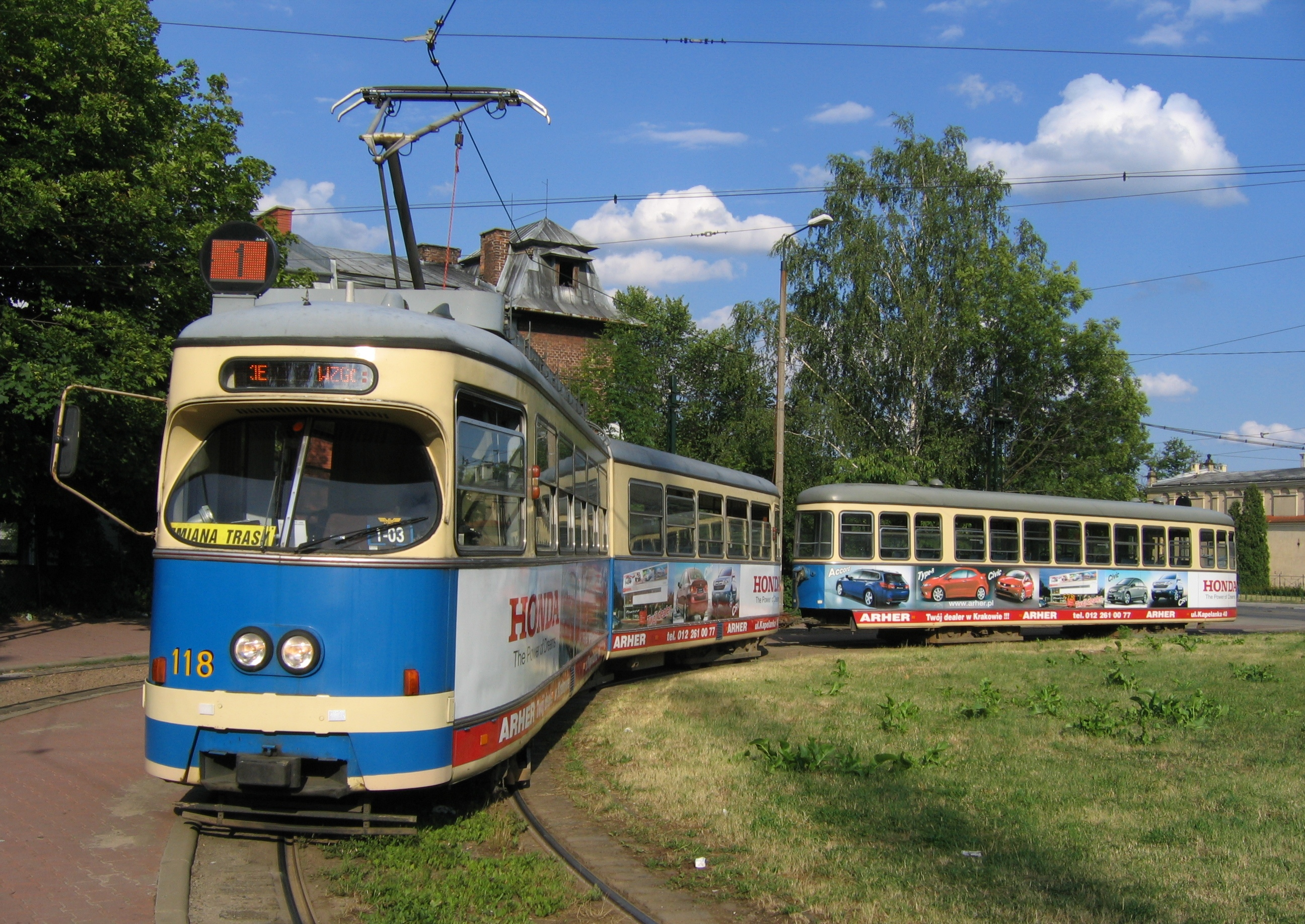 Tram at terminus Salwator in Kraków.